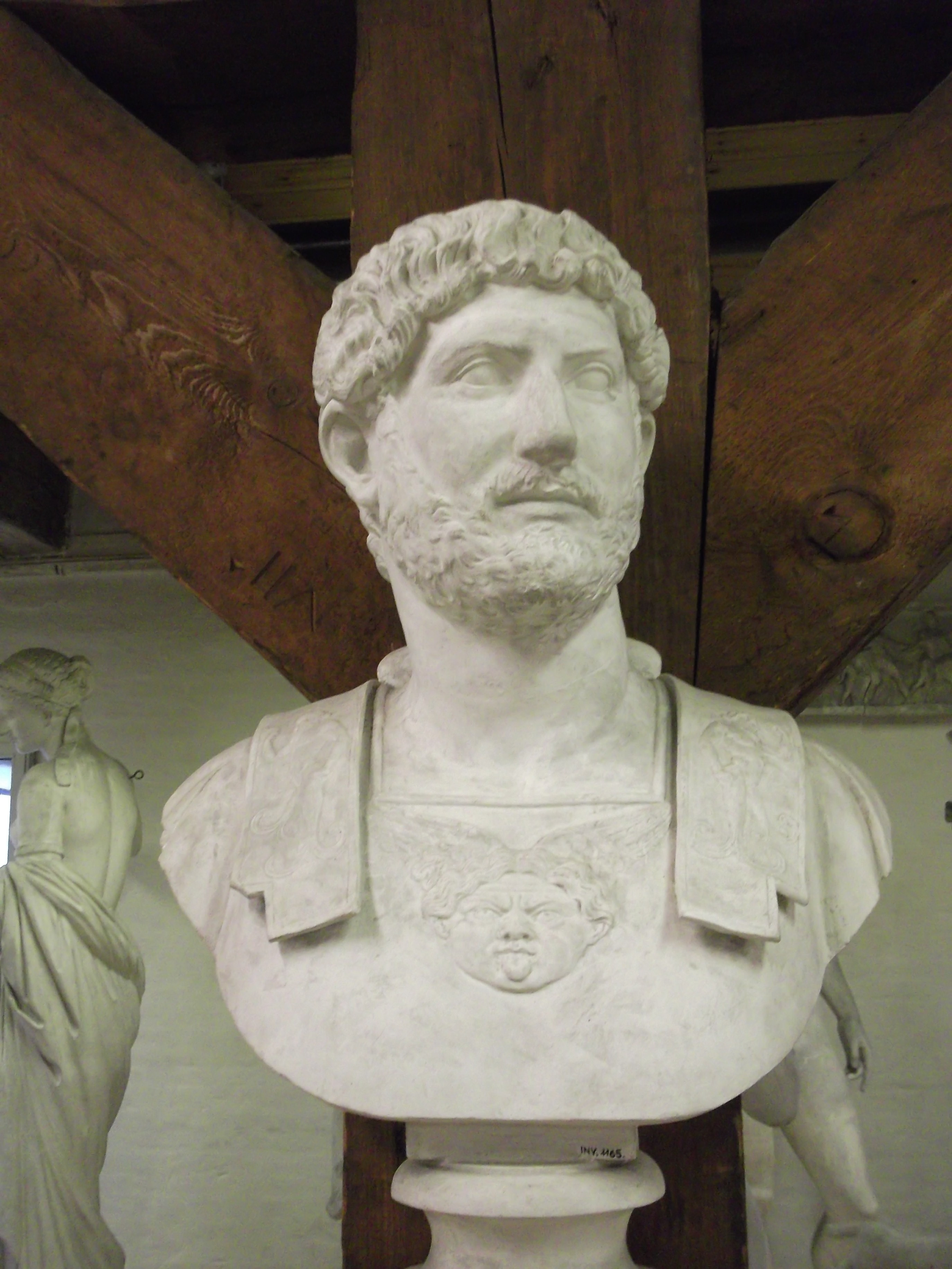 Plaster cast of item in other museum